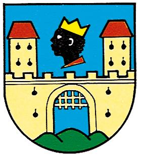 Coat of arms of Waidhofen an der Ybbs, Lower Austria